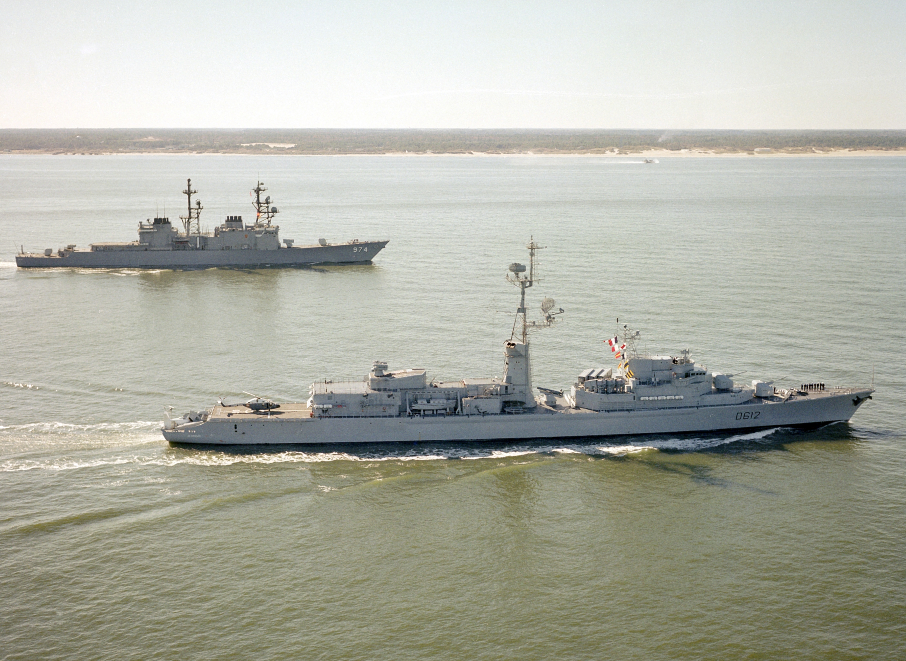 The French destroyer De Grasse (D612) and the U.S. Navy destroyer USS Comte de Grasse (DD-974) underway.